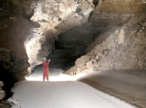 Snowy River Cave — in the Fort Stanton—Snowy River Cave National Conservation Area, in Lincoln County, south-central New Mexico. A BLM National Conservation Area of the United States.